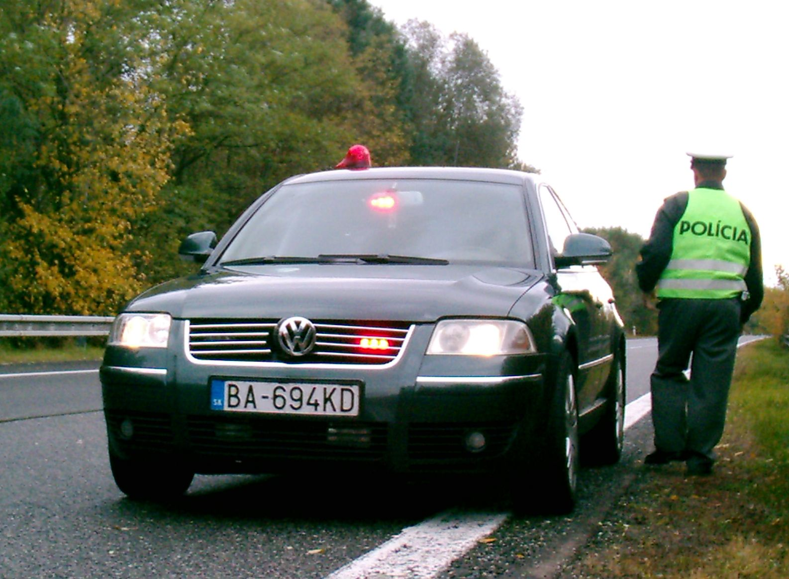 Unmarked police car Slovakia Passat B5; seen on motorway D2 near Malacky, Slovakia